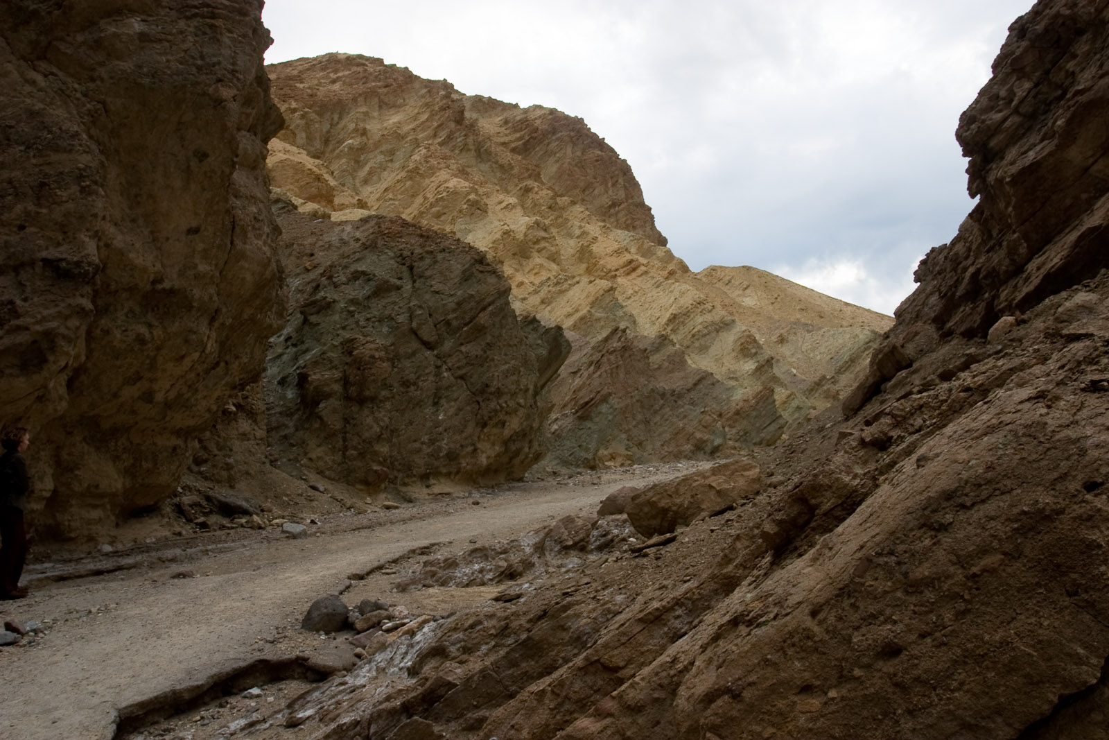 Golden Canyon Entrance